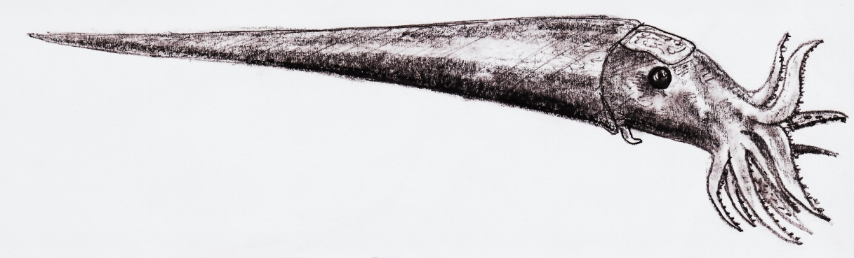 live reconstruction of a Cameroceras